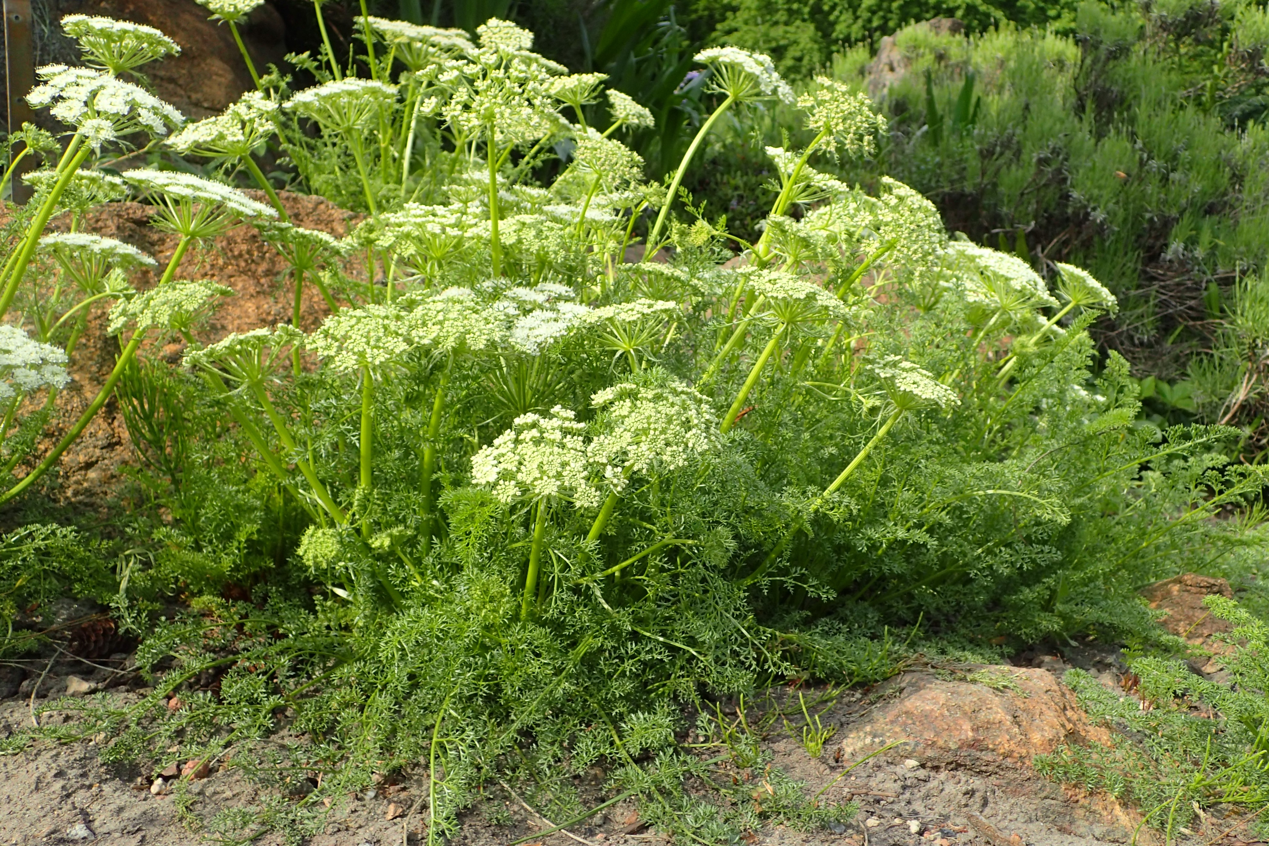 Laserpitium halleri in the Botanischer Garten, Berlin-Dahlem